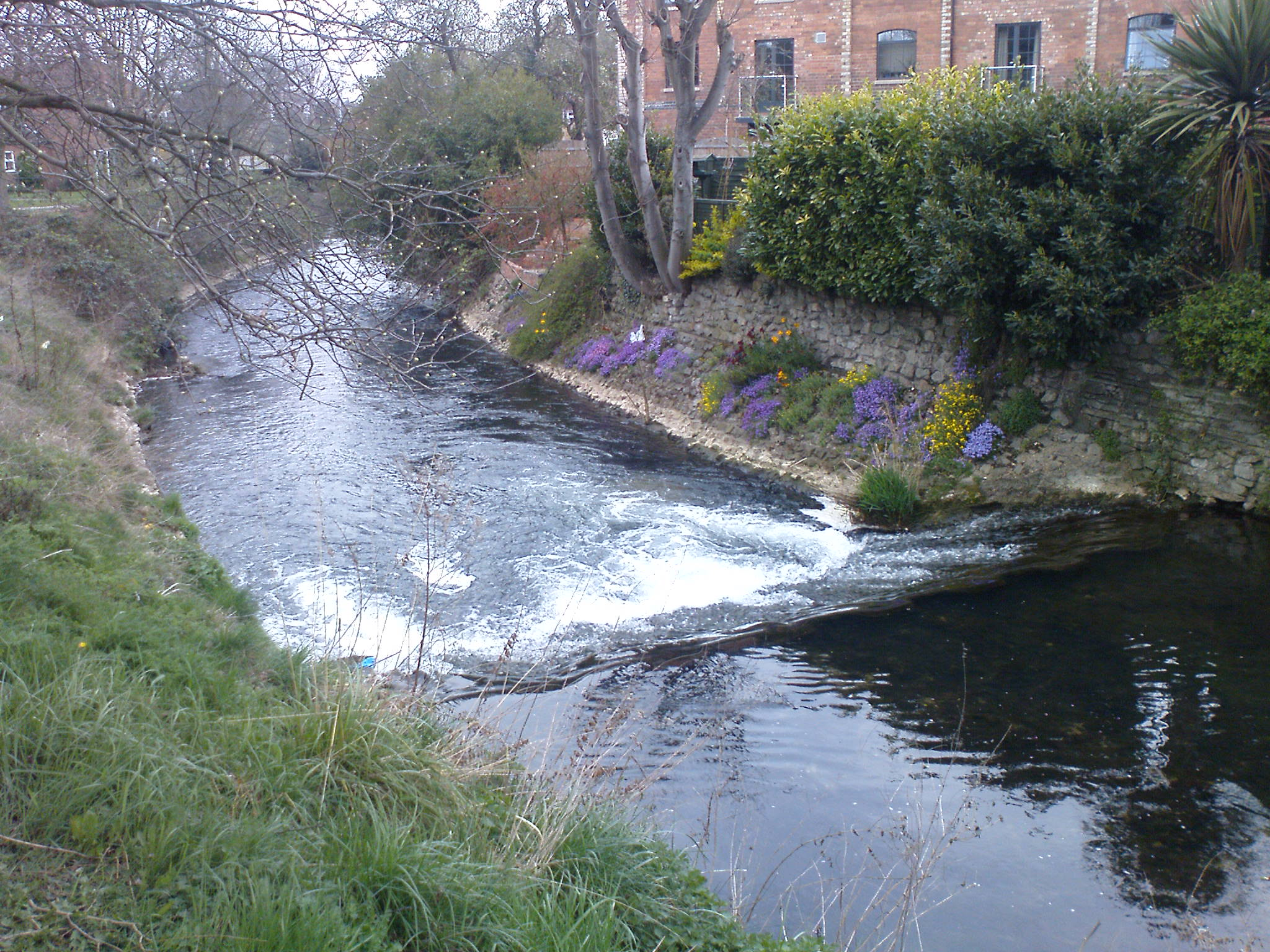 River Witham just west of Spittlegate Mill, New Somerby, Grantham